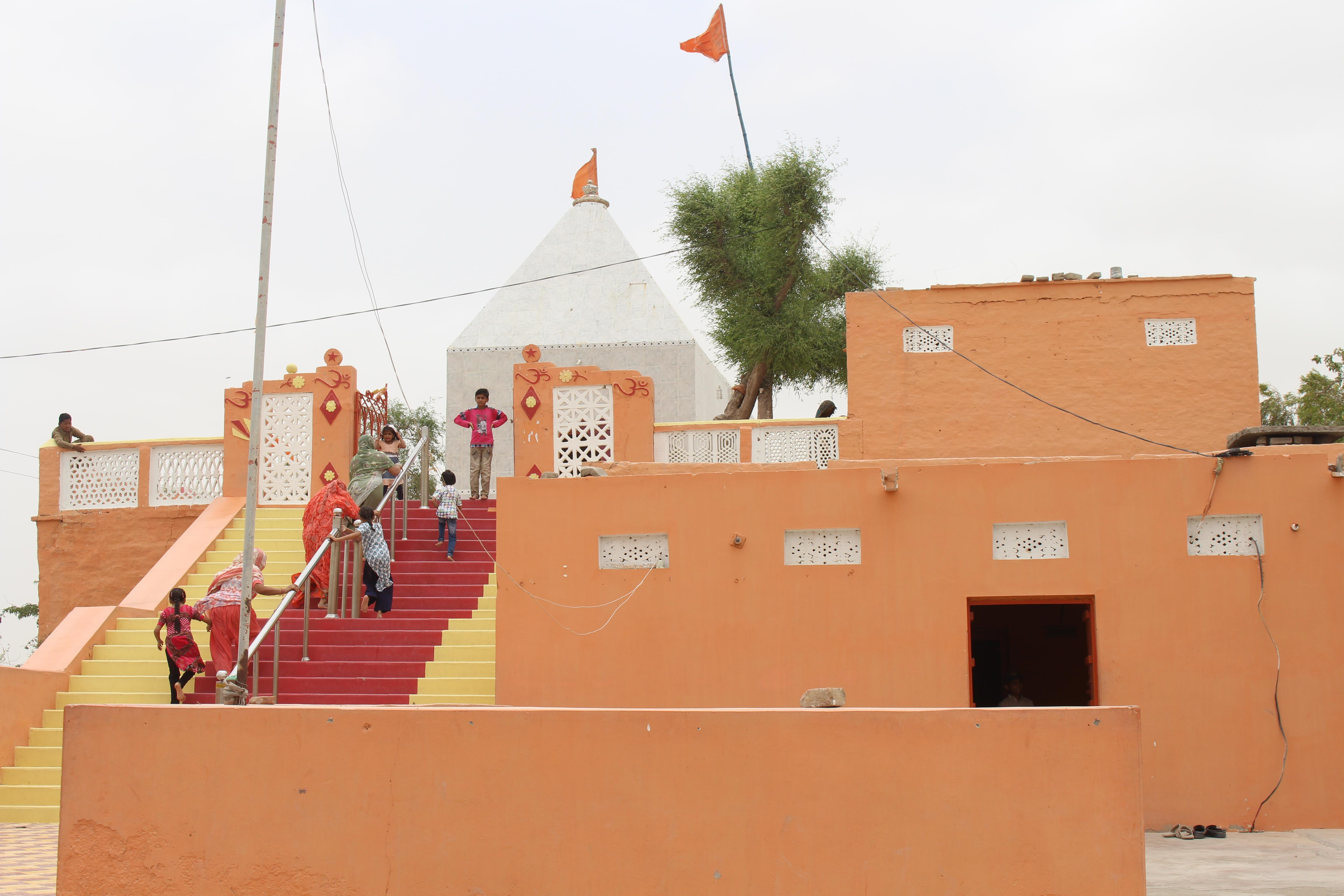 Shiv Mandir Umerkot This is a photo of a monument in Pakistan identified as the SD-U-30